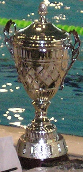 The Water Polo Cup of France, in Montpellier, waiting its 2009 winners.